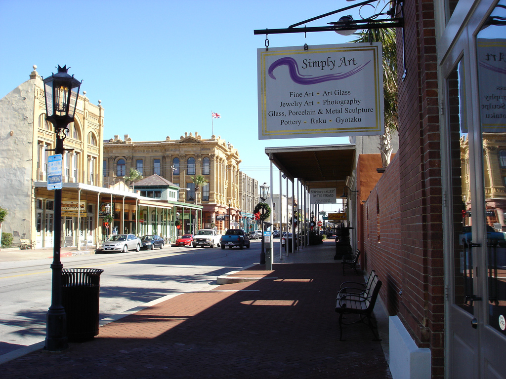 The Strand in Galveston, TX. The Wall Street of the South becomes a tourist destination.